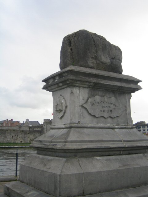 The Treaty Stone, Limerick. 29 October 2005